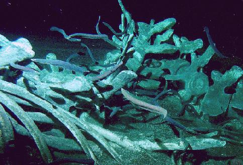 Skeleton of a 35-ton, 13-m gray whale on the sea bottom.